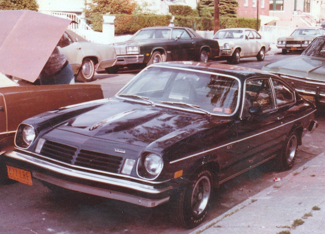 1974 Chevrolet Vega GT- My Grandfather's second Vega.